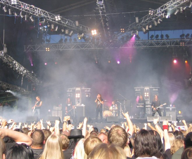 Finnish heavy metal group Amorphis performing at Tuska Open Air Metal Festival 2006.